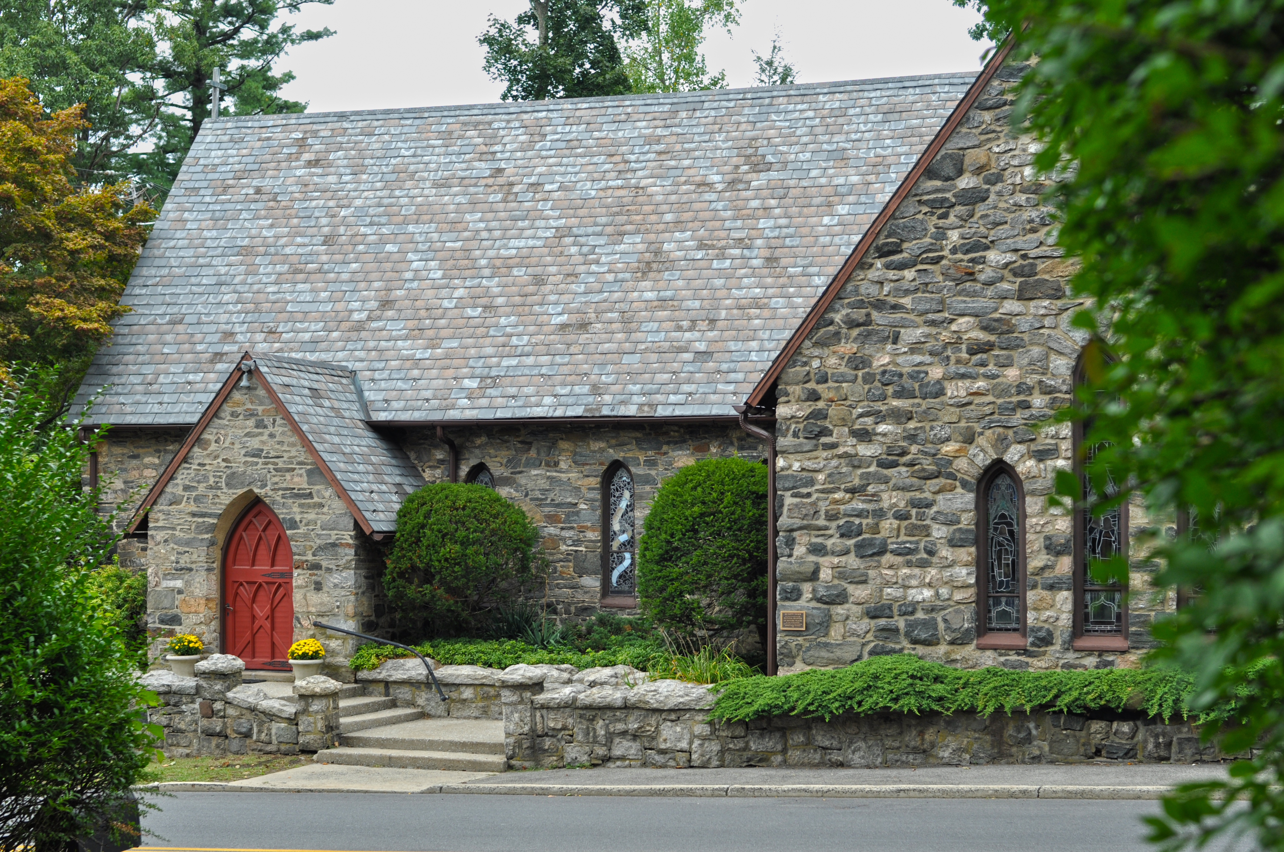 An image of the All Saints' Episcopal Church.